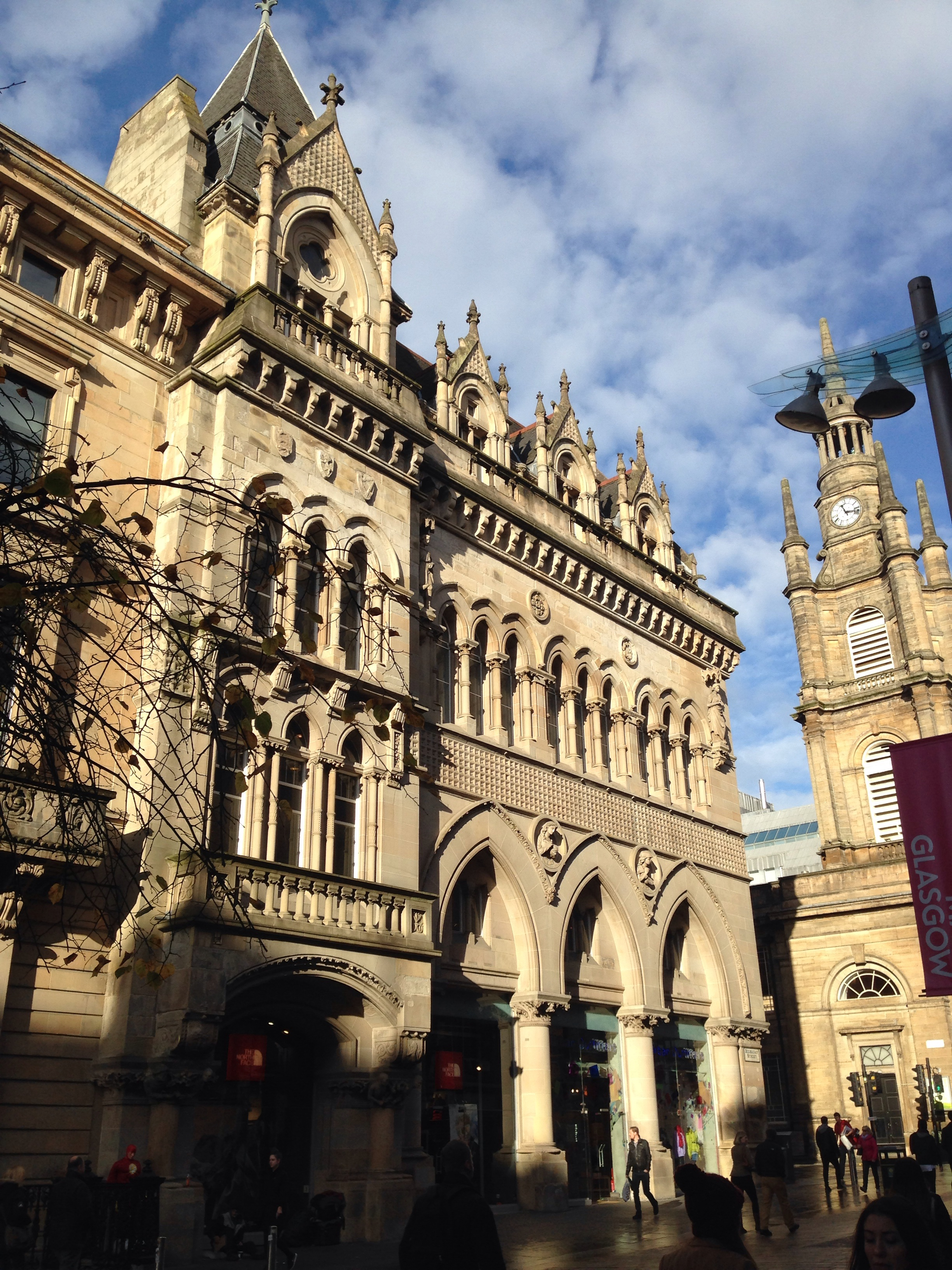 The Category A listed LB33089 at 63-77 (ODD NOS) NELSON MANDELA PLACE, WEST GEORGE STREET WITH 153-159 (ODD NOS) BUCHANAN STREET, FORMER GLASGOW STOCK EXCHANGE.